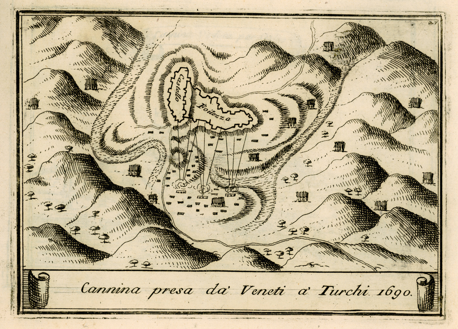 Vincenzo Coronelli - Repubblica di Venezia p. IV. Citta, Fortezze, ed altri Luoghi principali dell' Albania, Epiro e Livadia, e particolarmente i posseduti da Veneti descritti e delineati dal p. Coronelli, Venice, 1688.